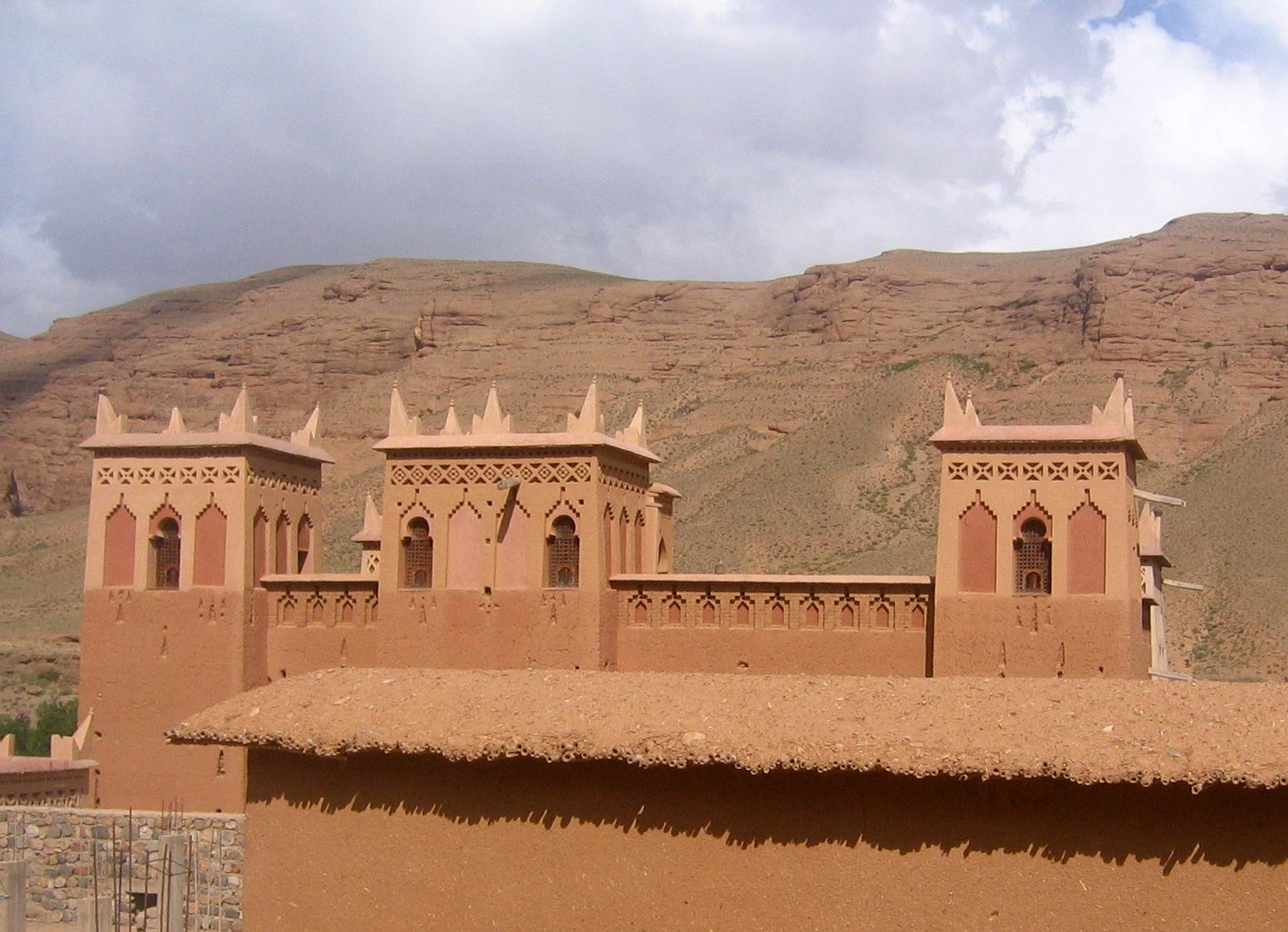 Berber architecture near the Dades gorges in the Anti-Atlas mountain range, Morocco